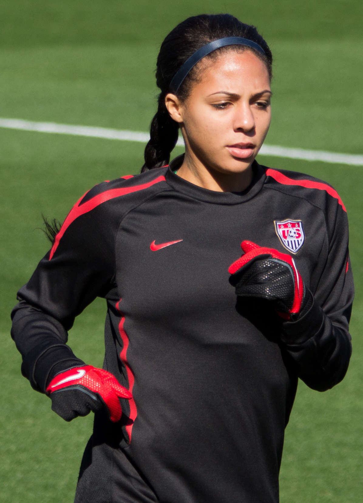 Sydney Leroux of the United States Women's National Soccer Team in Frisco, Texas